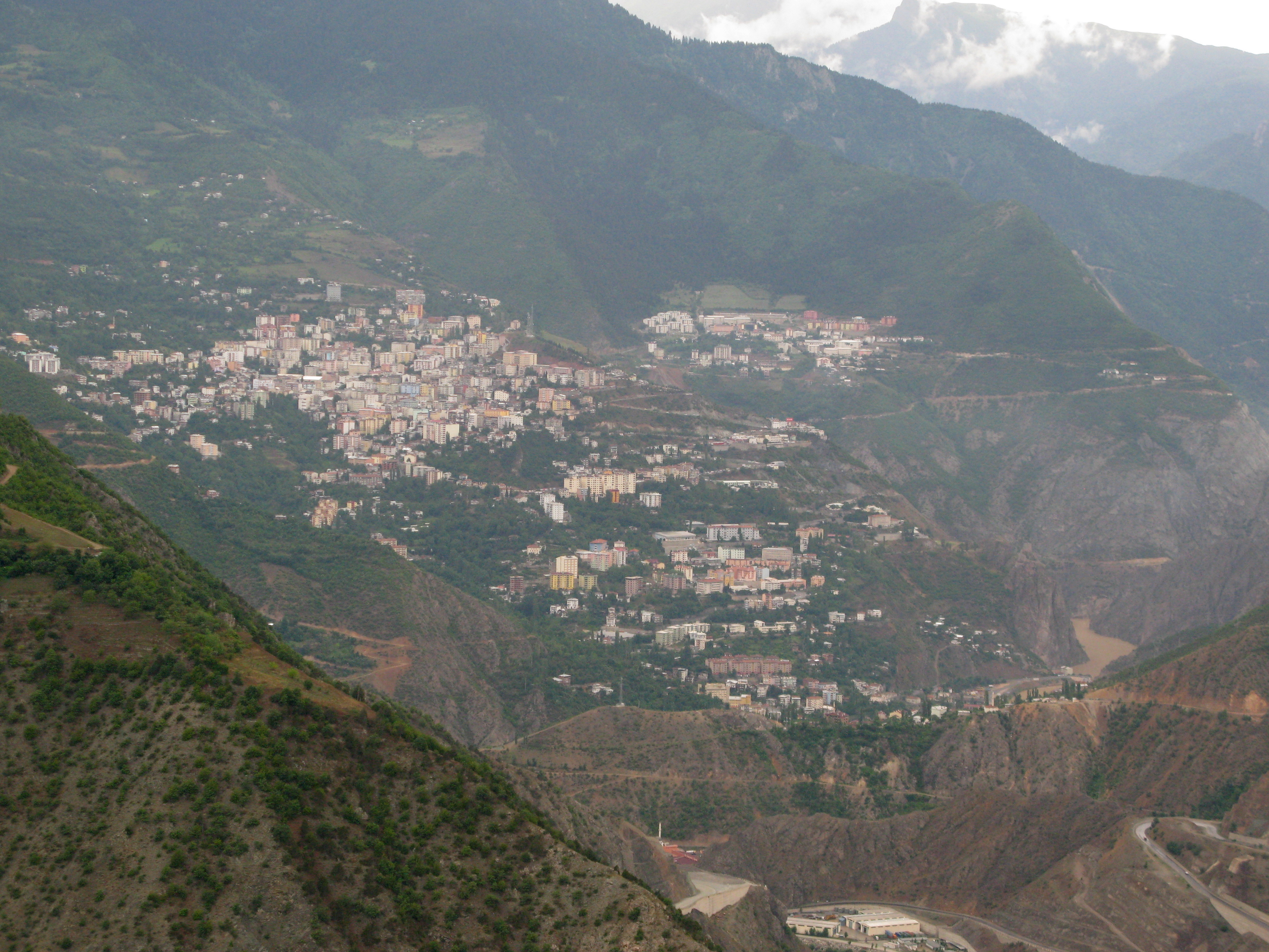 View on Artvin, Turkey from the construction side of the dam.